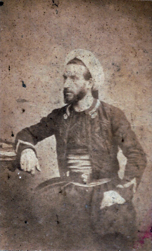 Photographie.